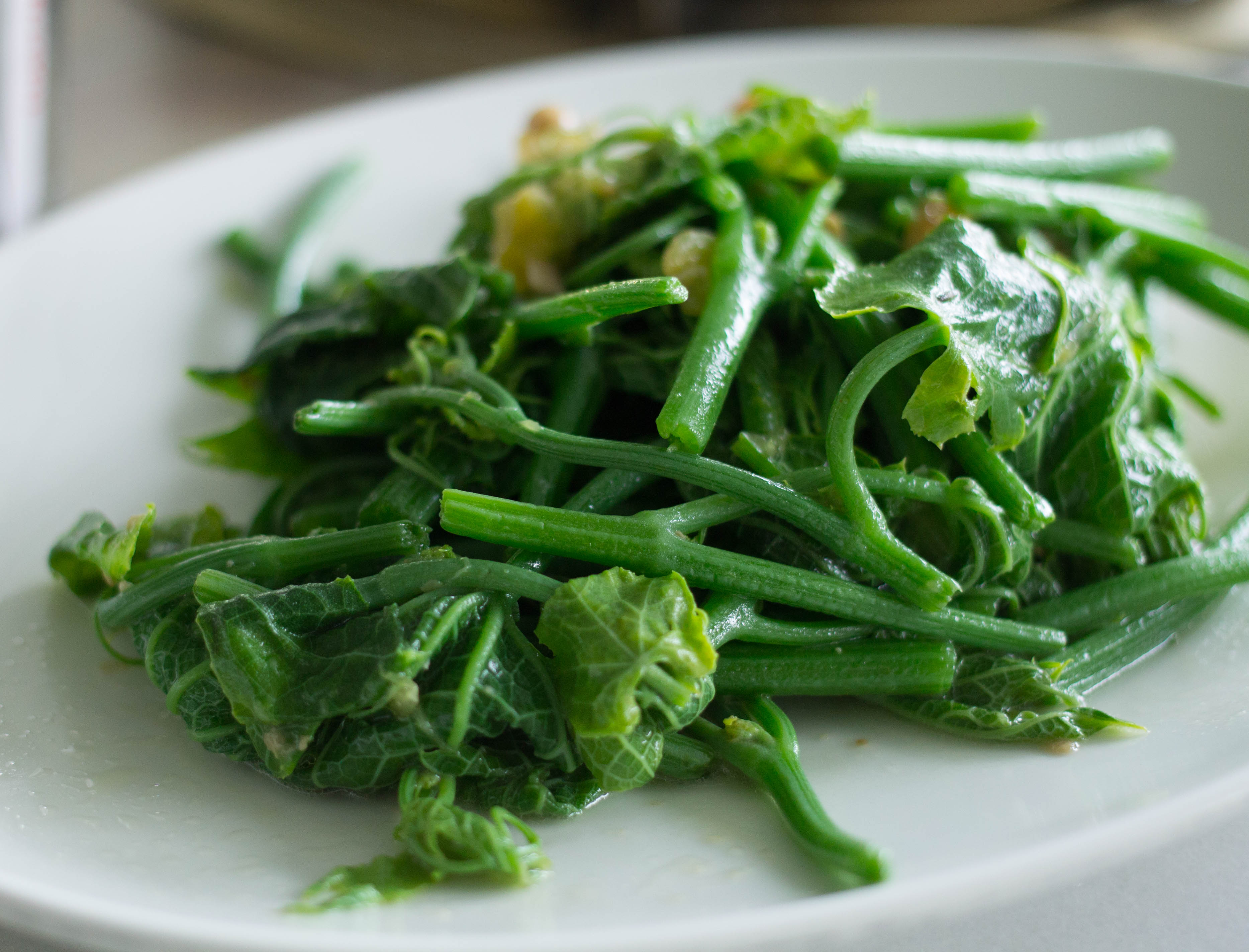 Stir fried chayote shoots in Taiwan.